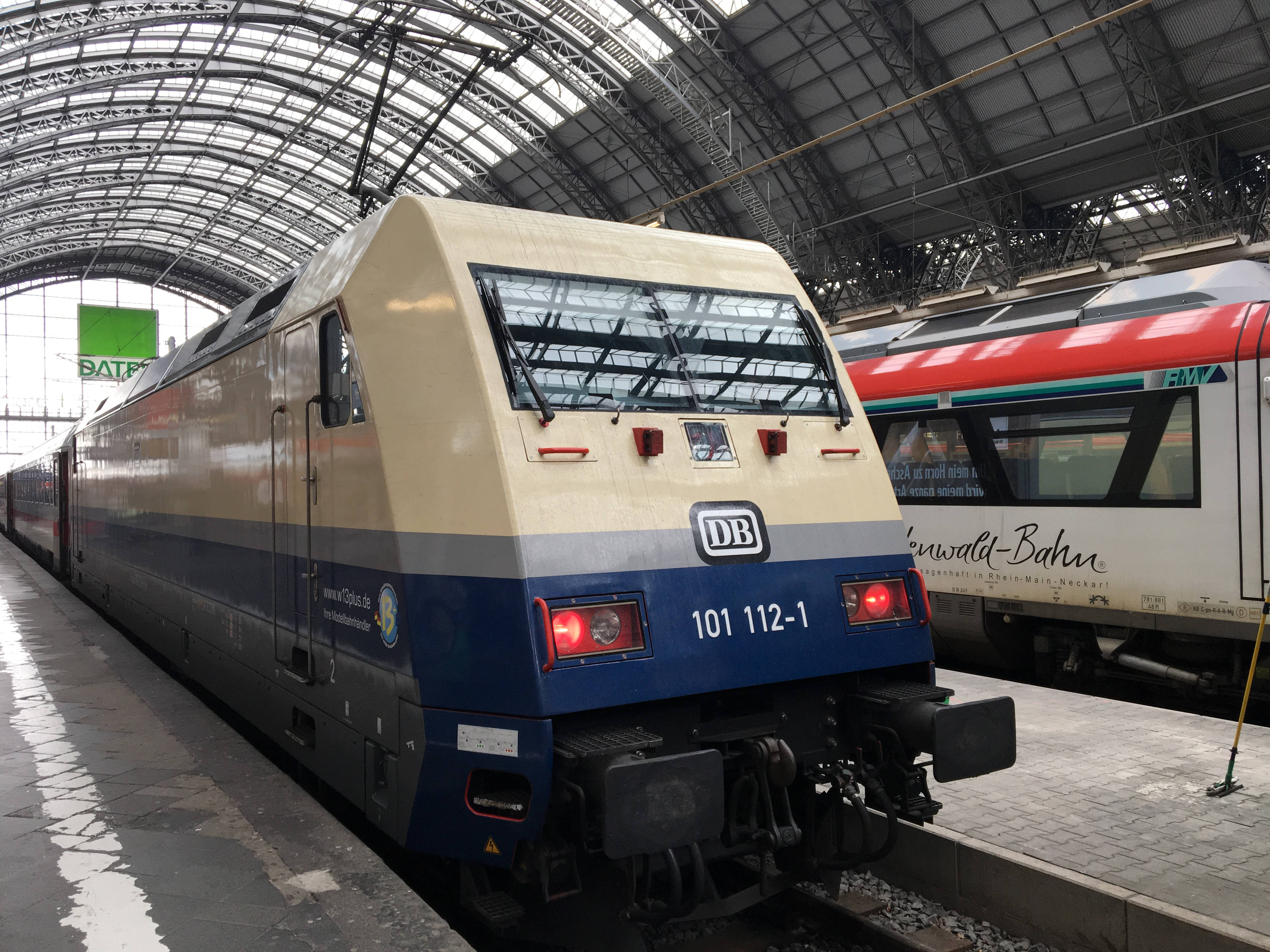 DB Baureihe101 locomotive with vintage ocean blue and beige painting and West German Bundesbahn logo, Frankfurt (Main) Central. (Despite that Baureihe101 is produced after 1996) 中文（中国大陆）: DB 101型机车涂以复古米色海蓝色配西德联邦铁路标识，法兰克福中央车站。（实际上101型机车产自1996年后）